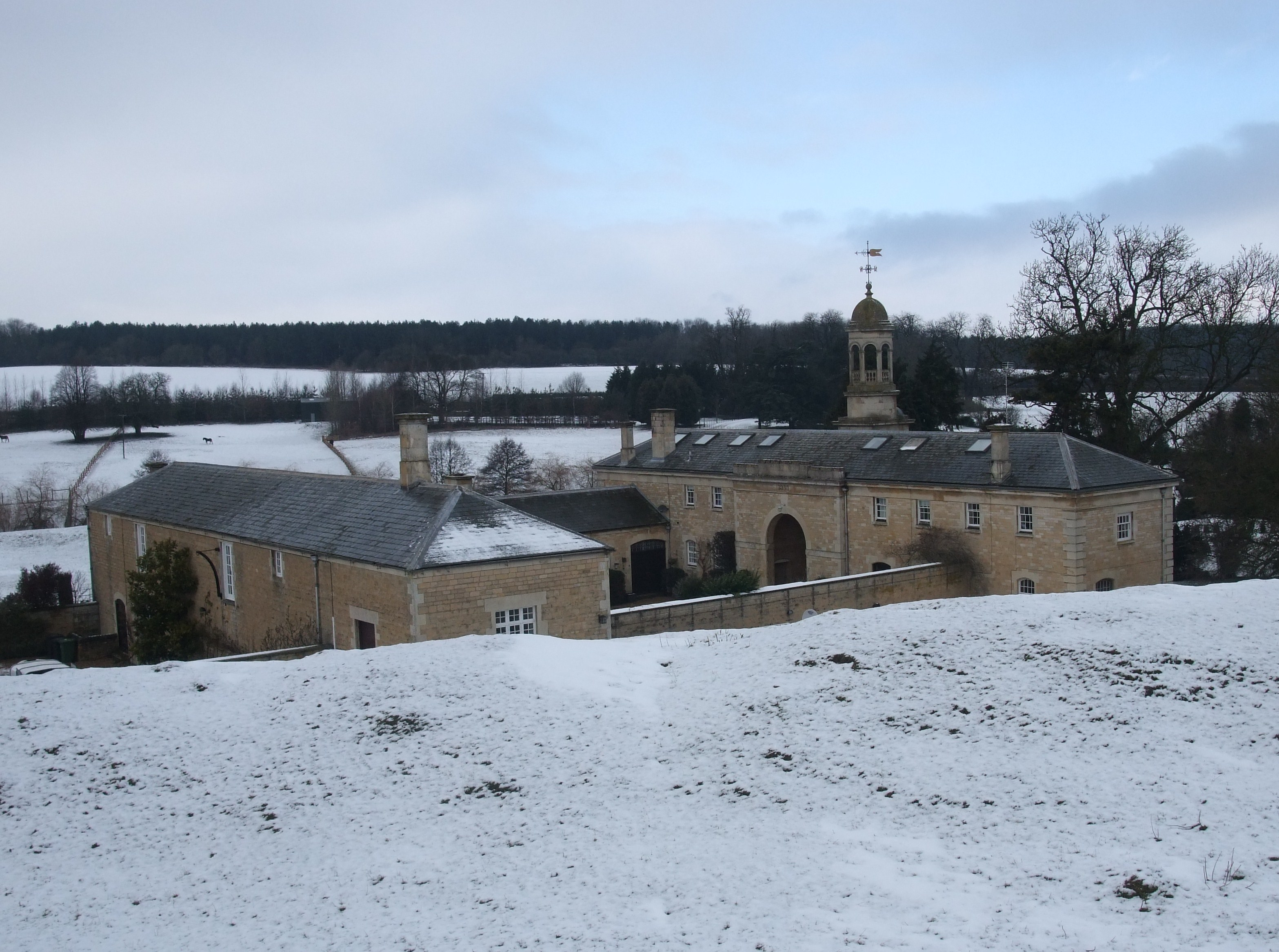 Site of Fineshade Abbey from the Jurrasic Way Only the stables buildings remaining on the site of the former abbey. Wakerley Great Wood on the horizon.